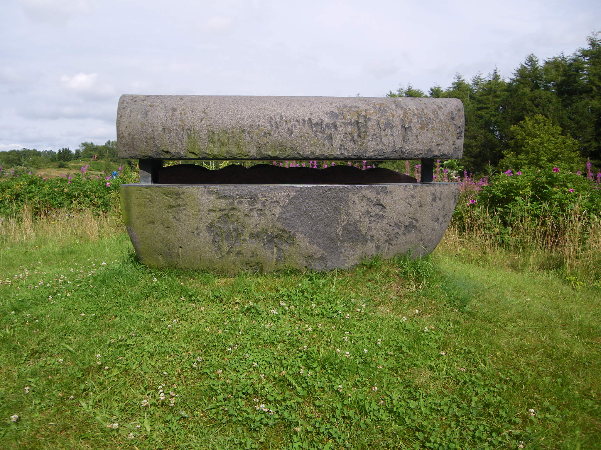 Lis Andersen, The Ark